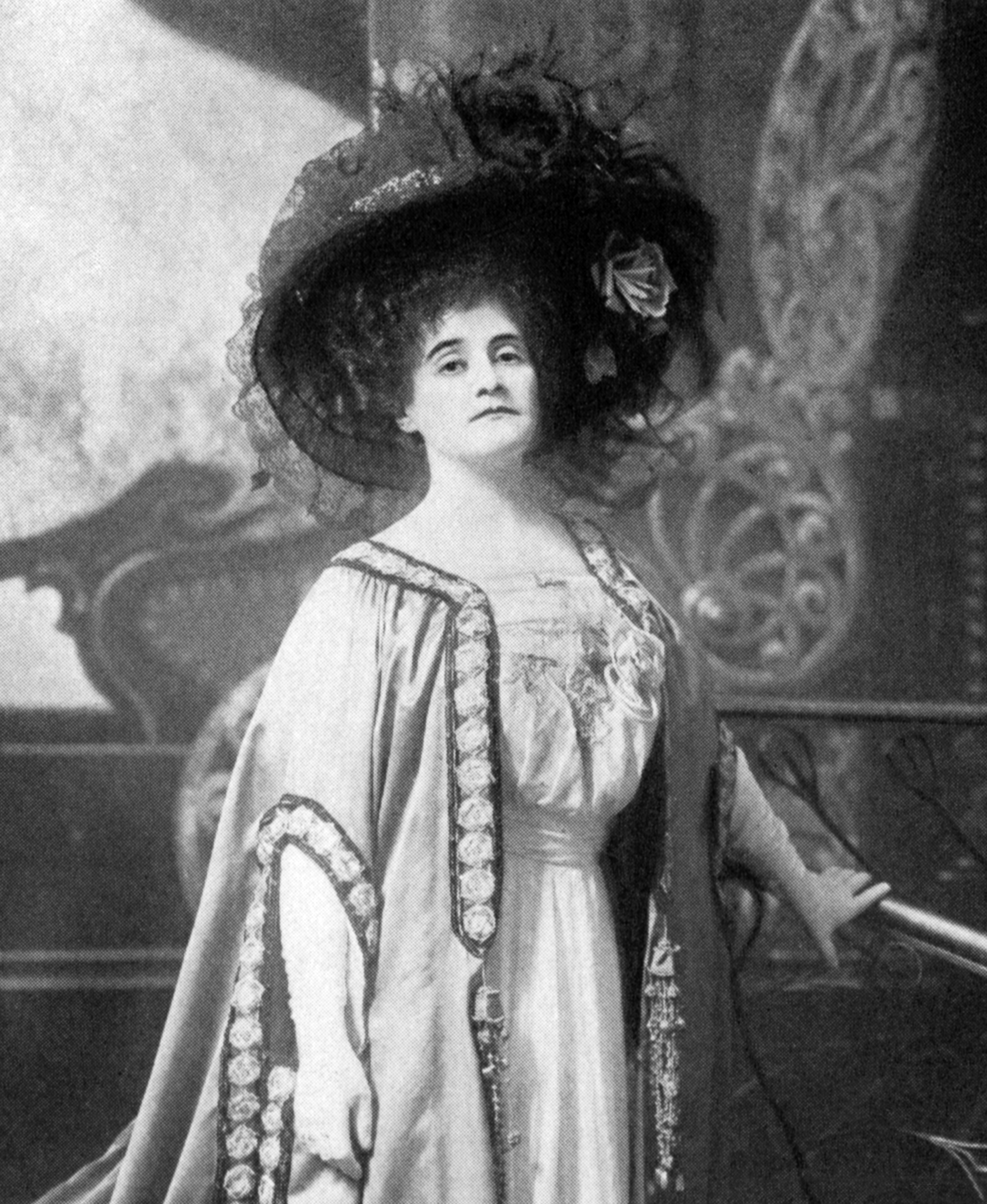 Promotional photograph of Ethel Jackson in the original Broadway production of The Merry Widow